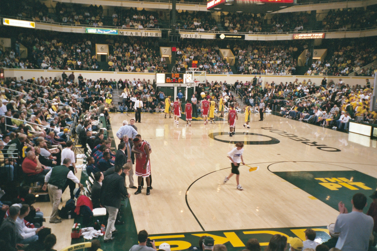 Interior of McArthur Court, January, 2006 Photo by myself